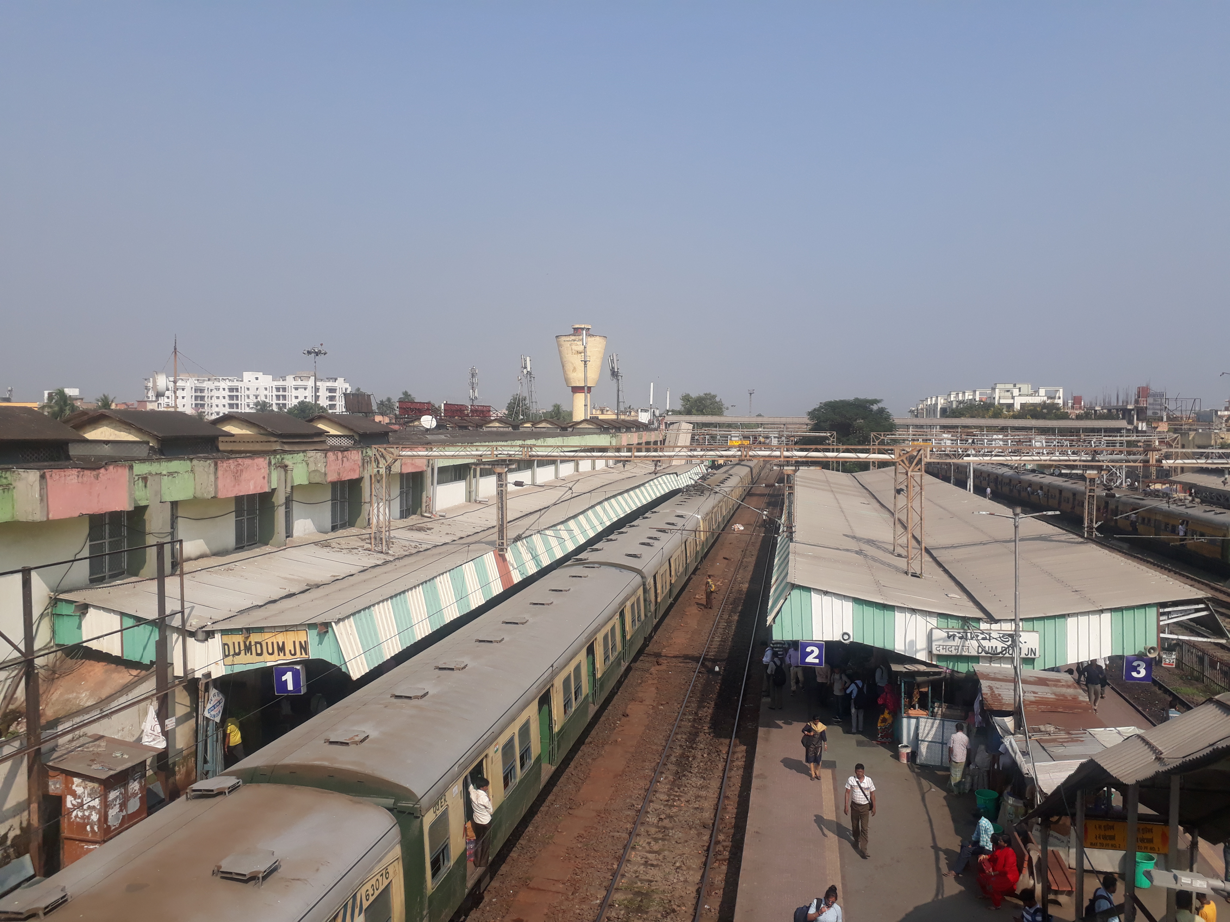 Dumdum railway station in Sealda main section